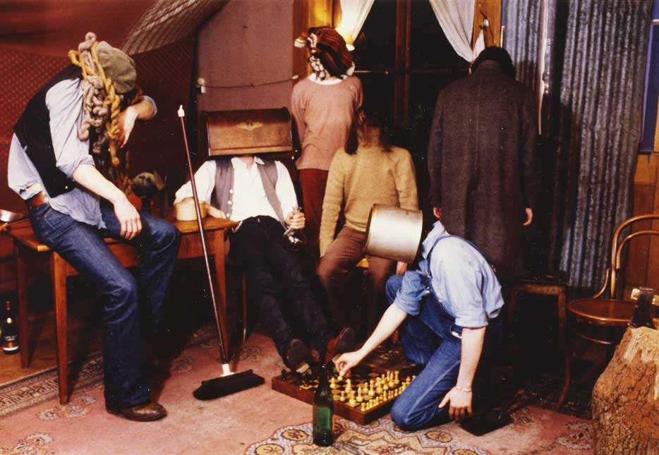 French/Swiss folk music group Aristide Padygros c.1978.